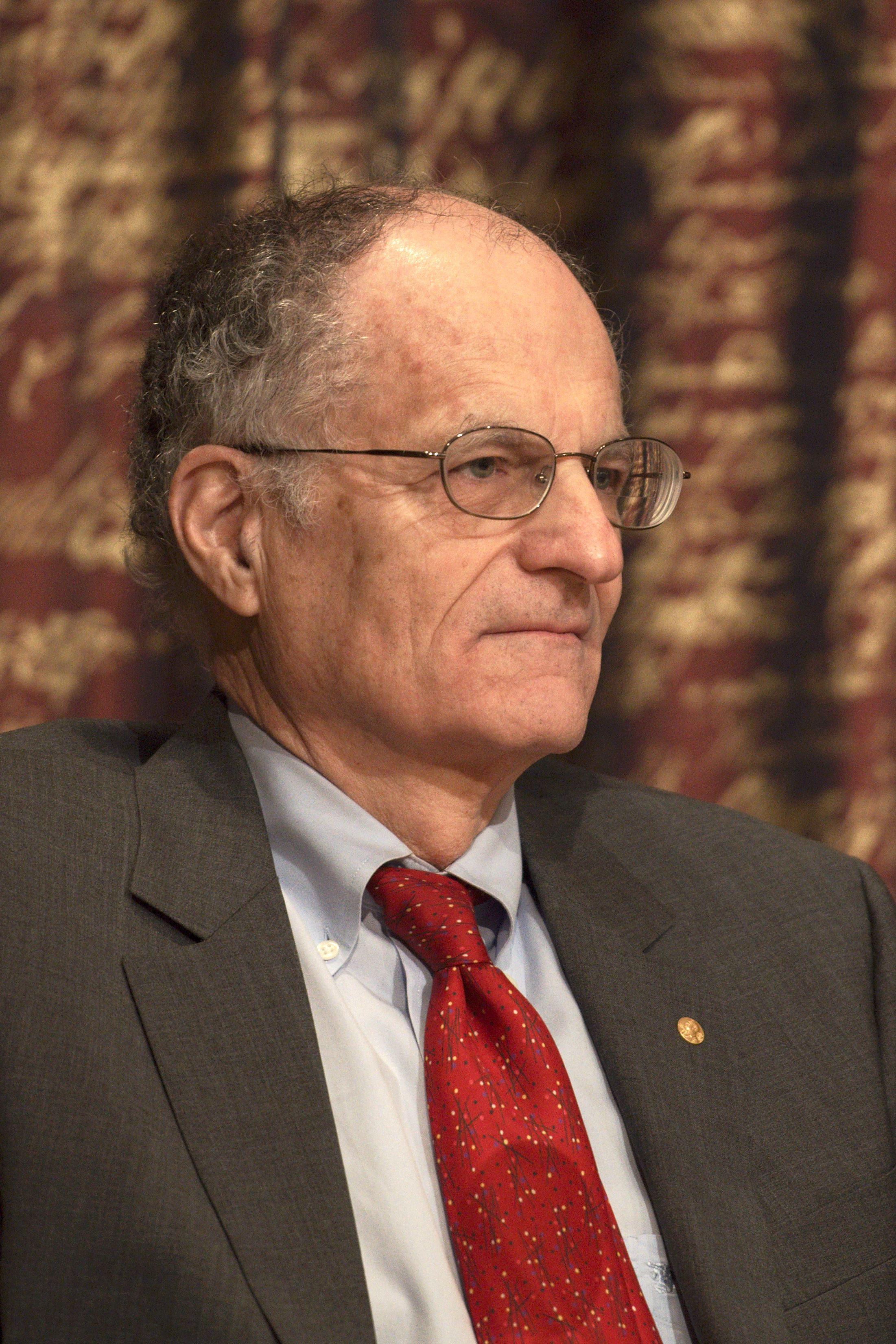 Nobel Prize 2011, press conference with the laureates of the Nobel prizes in chemistry and physics and the memorial prize in economic sciences at the Royal Swedish Academy of Sciences.